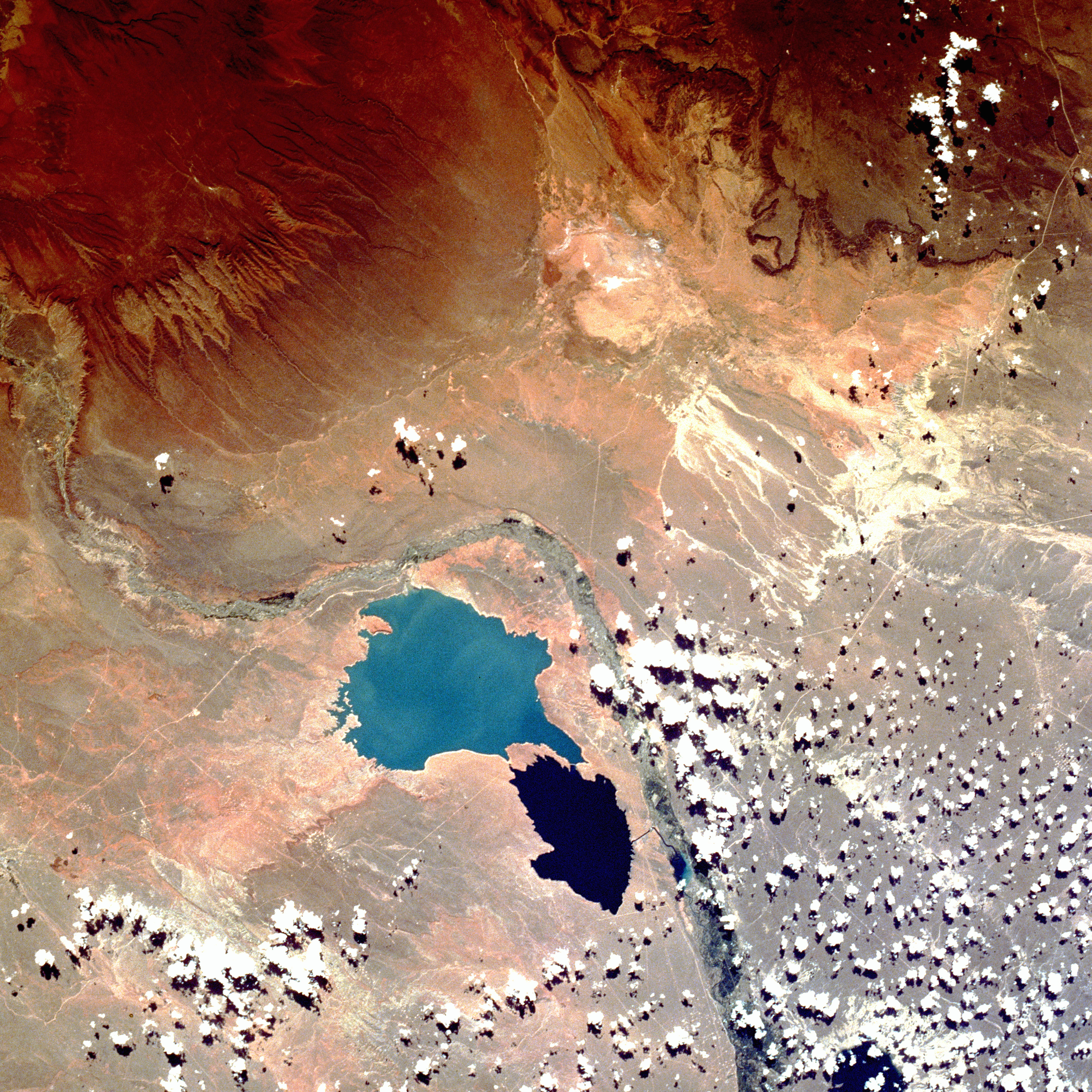 Shuttle image of "Cerros Colorados Complex", province of Neuquén, Argentina, March 1990 The deep blue waters of the Cerros Colorados Reservoir provide a dramatic contrast to the brown arid-to-semiarid landscape surrounding it. This reservoir is located in the mountains of west-central Argentina about 30 miles (48 kilometers) northwest of Neuguén (not shown in this photograph), and the dam is located in the northwest corner of the reservoir. The ribbon-like floodplain of the Neuguén River curves around the north side of the reservoir. The reason for the color variation within the reservoir is unknown. Significant erosion features can be seen north and west of the reservoir. The southern flank of the Auca Mahuida Mountains is shown as a series of low escarpments north of the reservoir. A major west-to-east-aligned erosion drainage pattern is visible west of the reservoir along the Neuguén River as it snakes its way from its source tributaries in the Andes Mountains. Some evidence of interior drainage—small, highly reflective dry lakes (salt flats)—appears north of the reservoir between the low mountains to the west and the plateau to the north. This region is part of an extensive transition zone between the southwestern fringe of the grasslands of the Pampas and the windy, desert conditions of the northwestern extension of Patagonia.